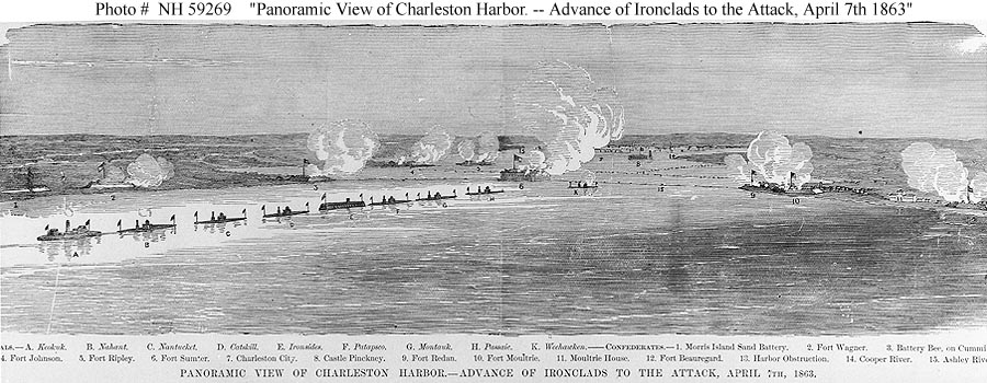 First Battle of Charleston Harbor. "Panoramic View of Charleston Harbor. -- Advance of Ironclads to the Attack, April 7th, 1863" Line engraving published in "The Soldier in our Civil War", Volume II, page 172, with a key to individual ships and land features shown. U.S. Navy ships present are (from left to center): Keokuk, Nahant, Nantucket, Catskill, New Ironsides, Patapsco, Montauk, Passaic and Weehawken. U.S. Naval Historical Center Photograph. Photo #: NH 59269. Online Image: 107KB; 900 x 350 pixels.